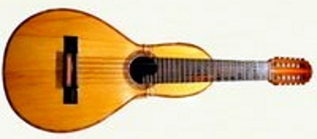 Bordonua.